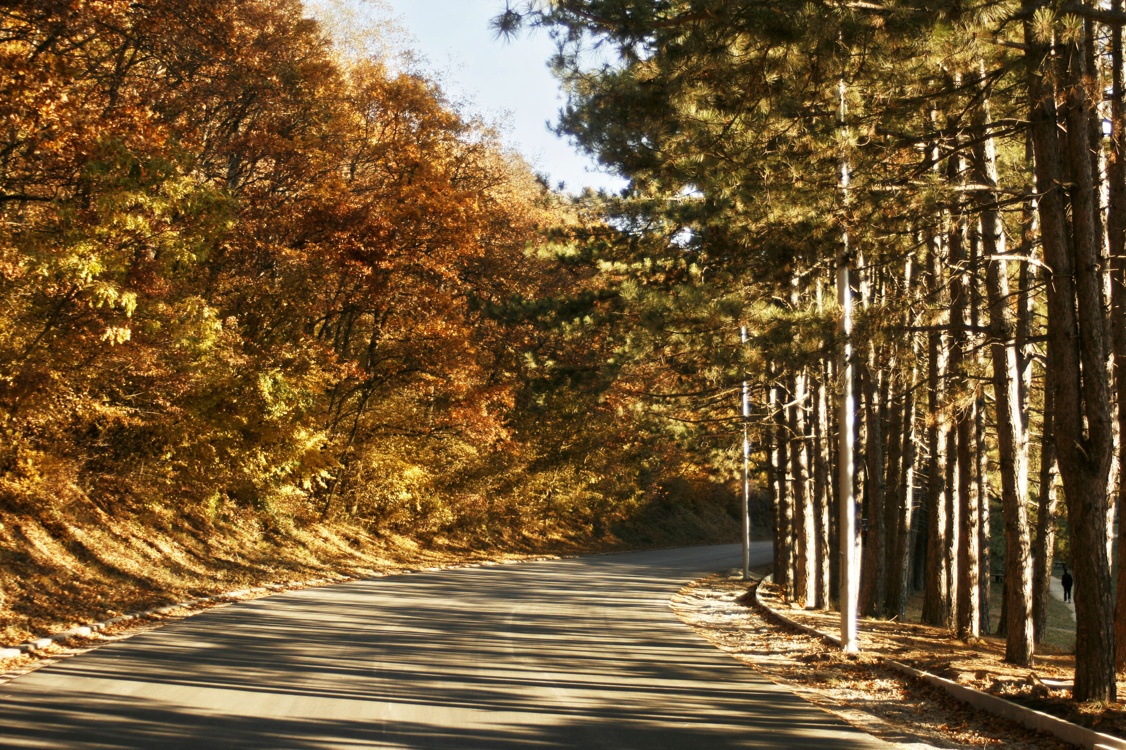 Germia Prishtine